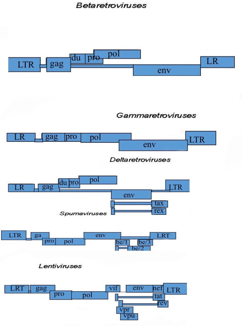 ORF's